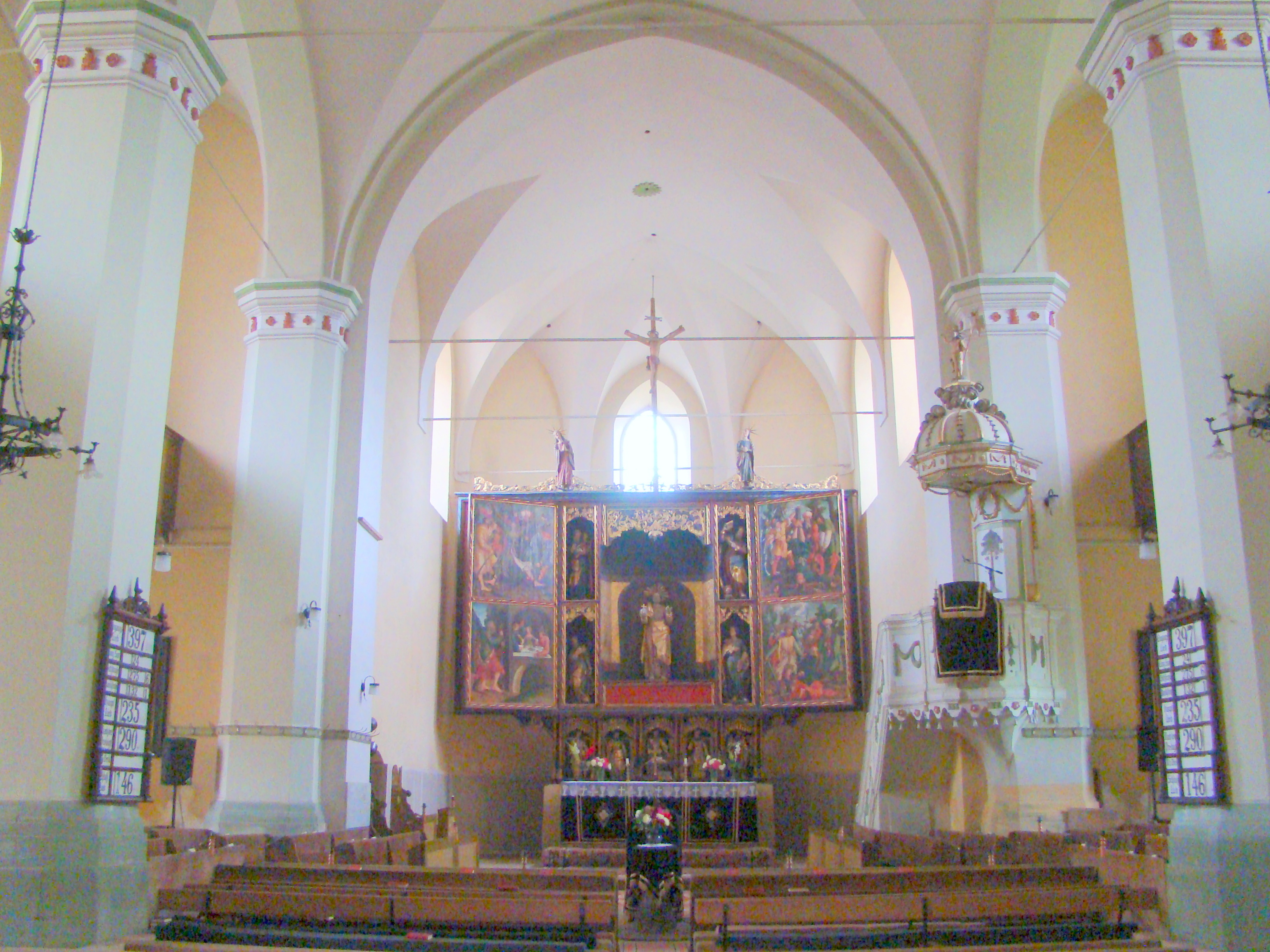 Lutheran church in Hălchiu, Brașov County, Romania